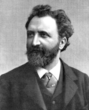 Photo of the composer Friedrich Gernsheim, 1892